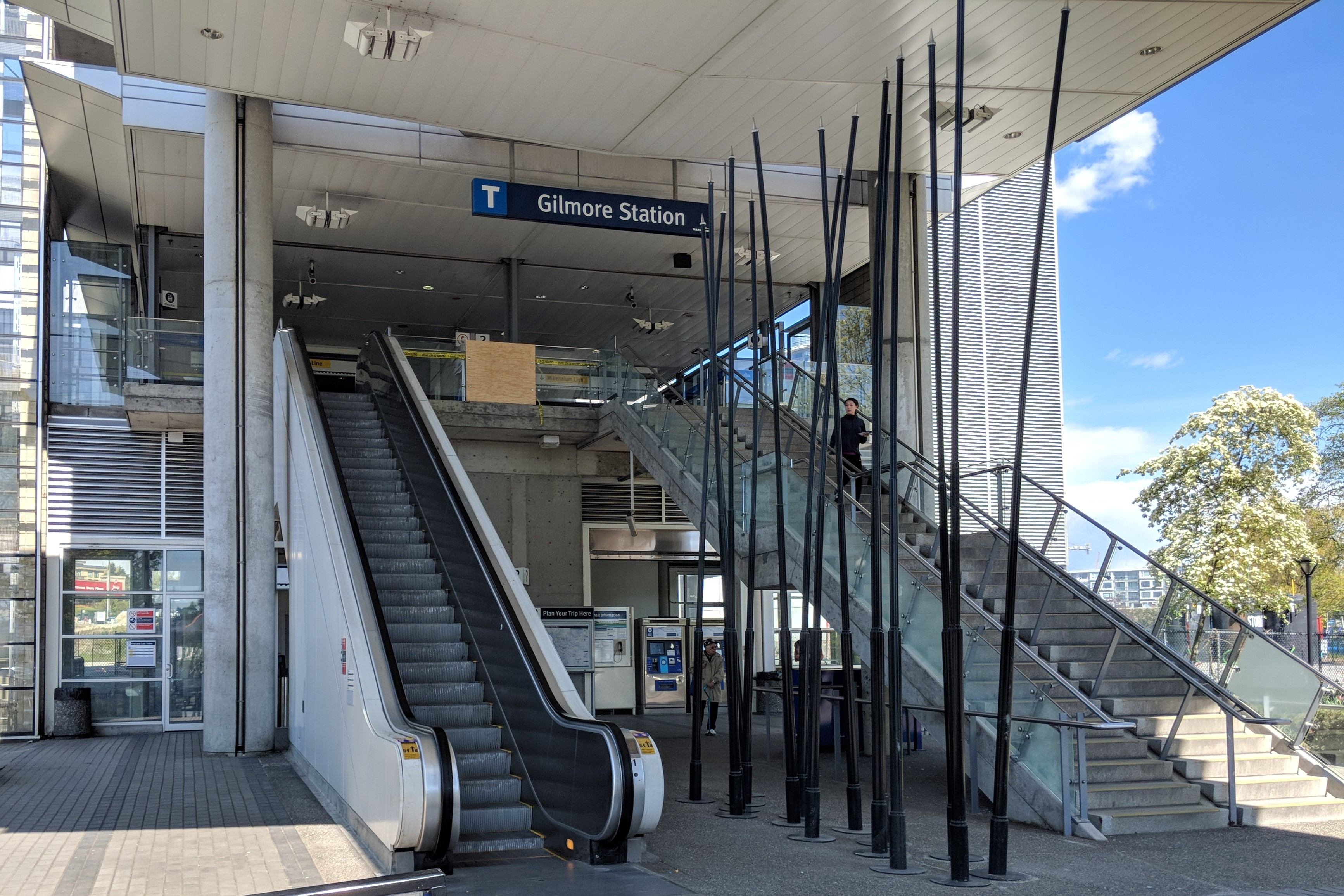 Gilmore station entrance. April 2019.